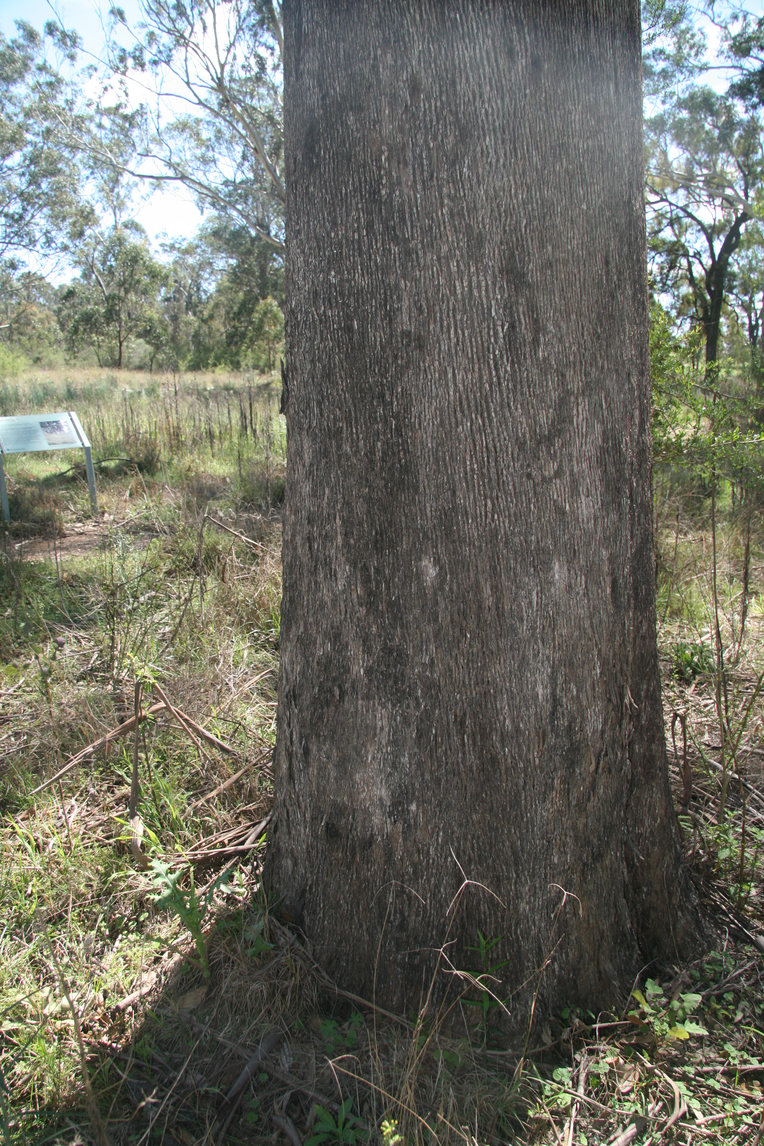 Eucalyptus moluccana trunk, at Mt Annan Botanic Gardens (where it grows locally)